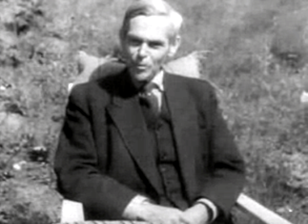 Granpré Molière, 1954